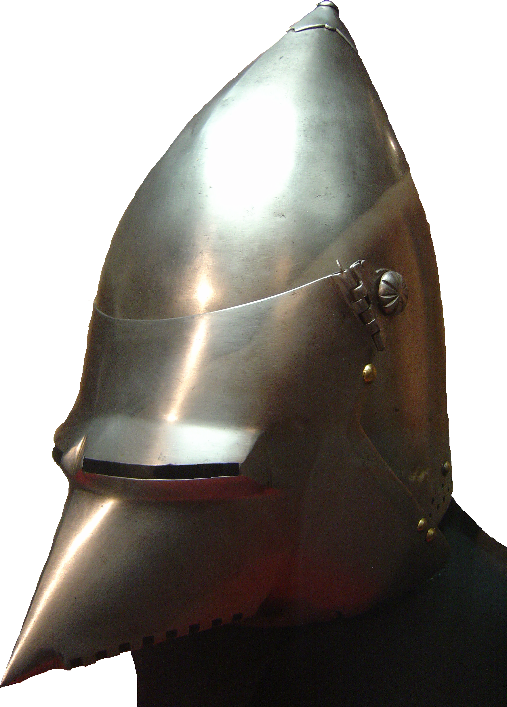 Helmet of Duke Ernest of Austria (Northern Italy circa 1400)